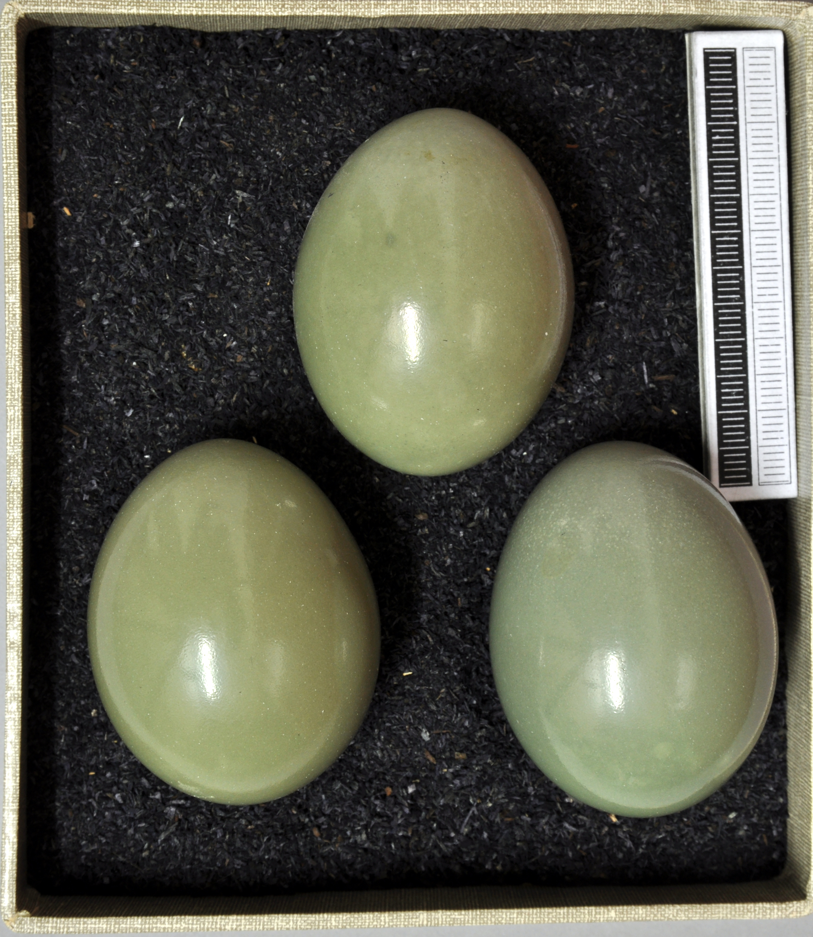 Great tinamou Tinamus major , egg, Coll. Museum Wiesbaden